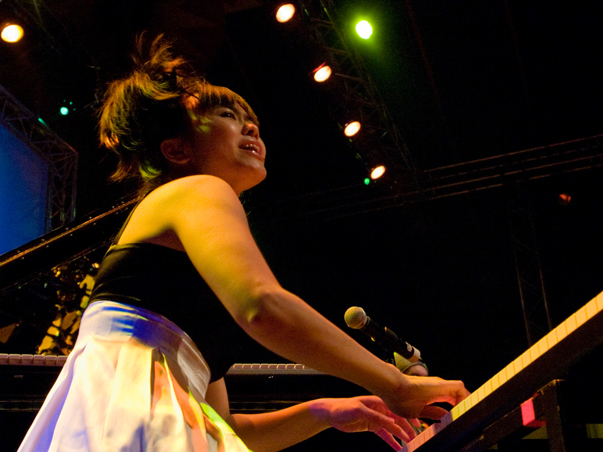 Hiromi Uehara at Moers festival 2007